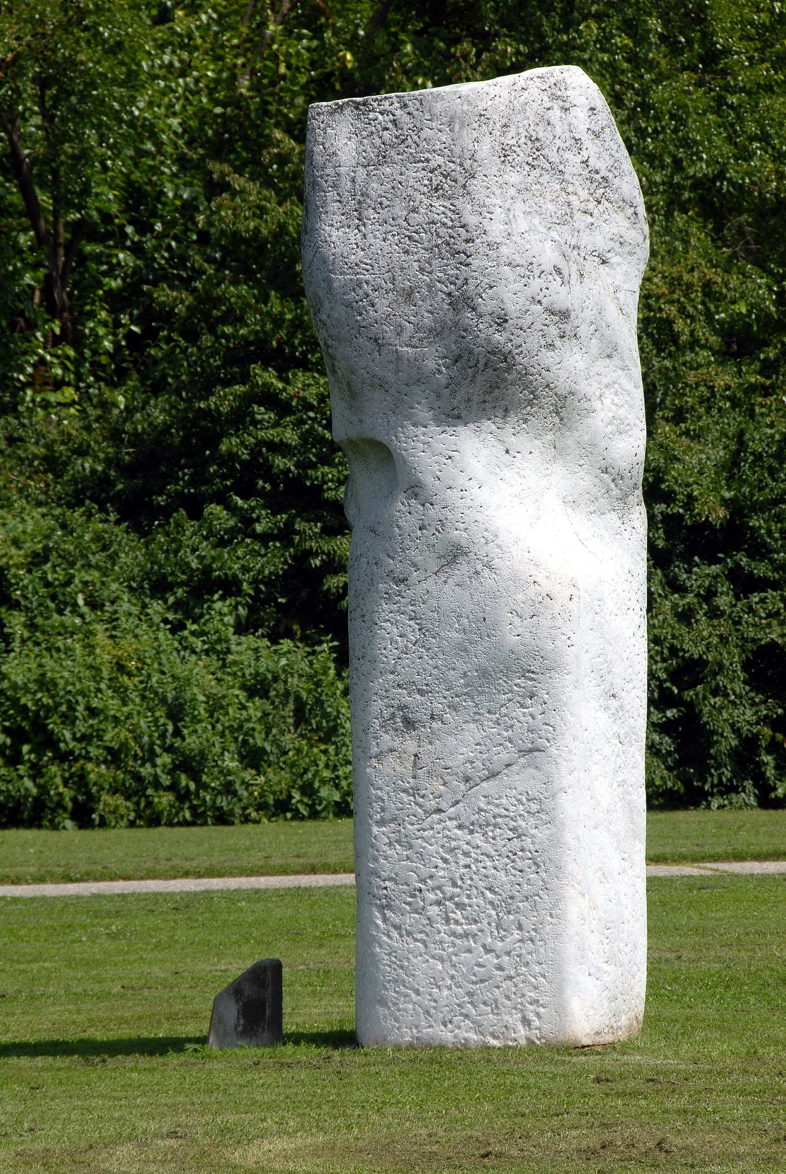 Sculpture “Steinsaeule”, created by the Czechian sculptor Milos Chlupac, set up in the Europapark on the eastern shore of Lake Woerth in the district Waidmannsdorf of Klagenfurt, Carinthia, Austria